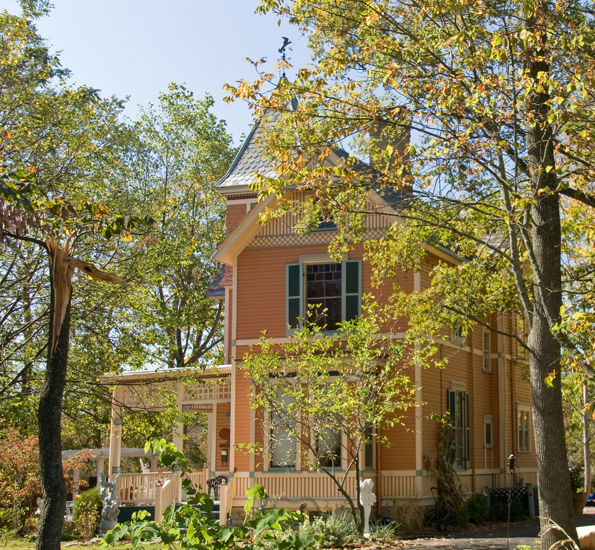 Joseph W. Baldwin house in Wyoming, OH. Photo by Greg Hume